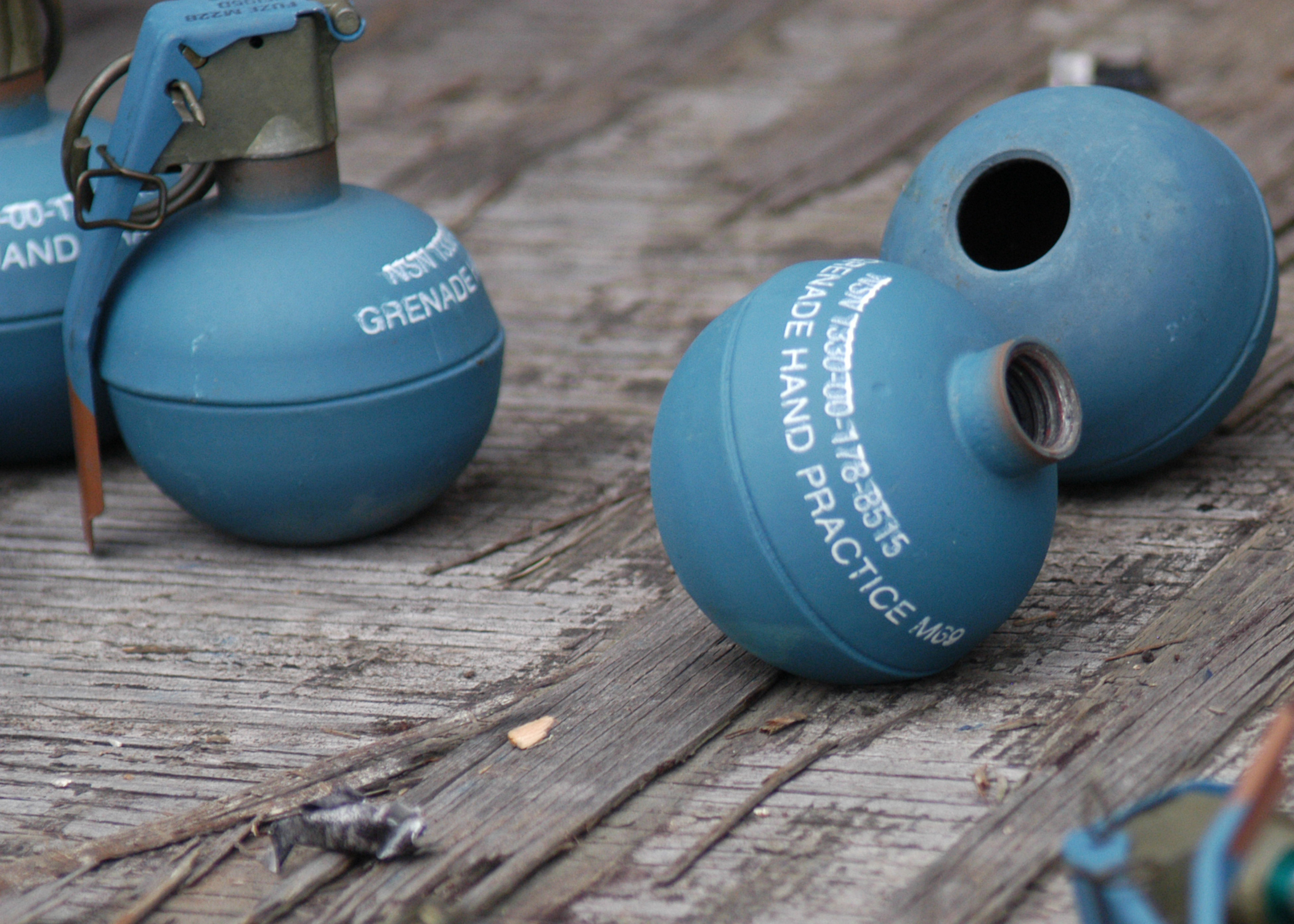 Approximately 200 M69 practice grenades were used by the 2nd Beach and Terminal Operations Company at the Page Field Grenade Range during their annual training.